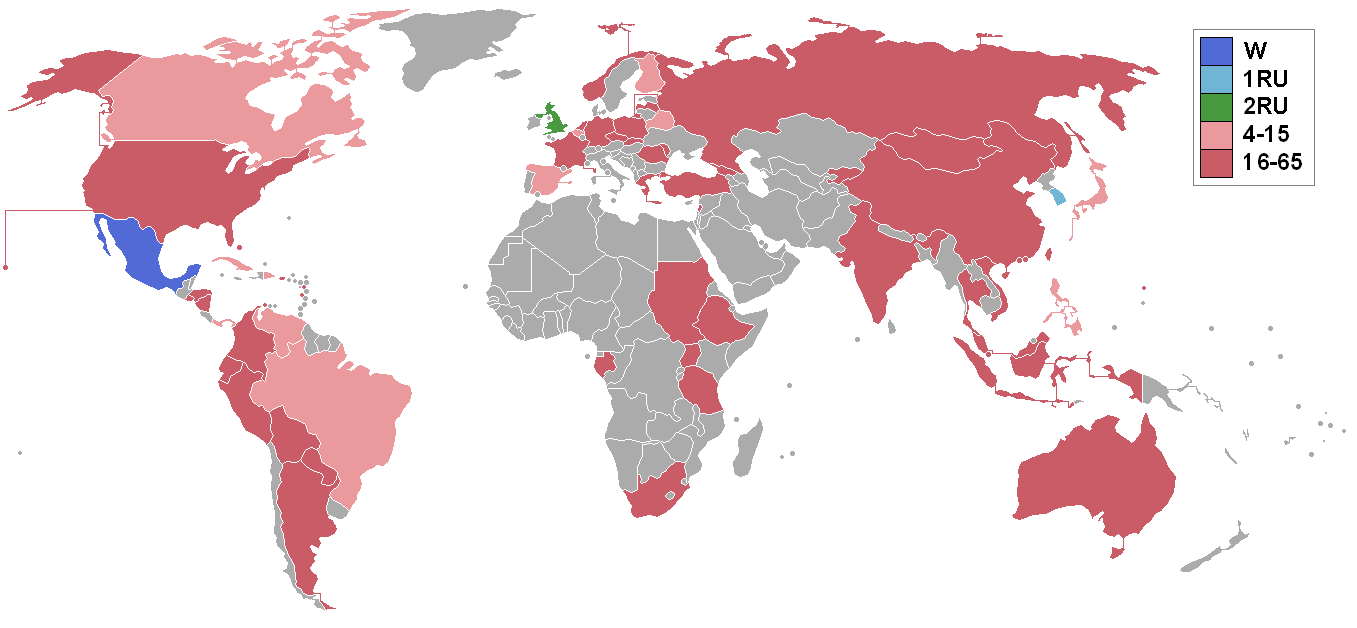 Ms International 2009 participation map